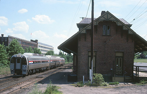 An Amtrak shuttle train passing the old Windsor Locks station in June 1980